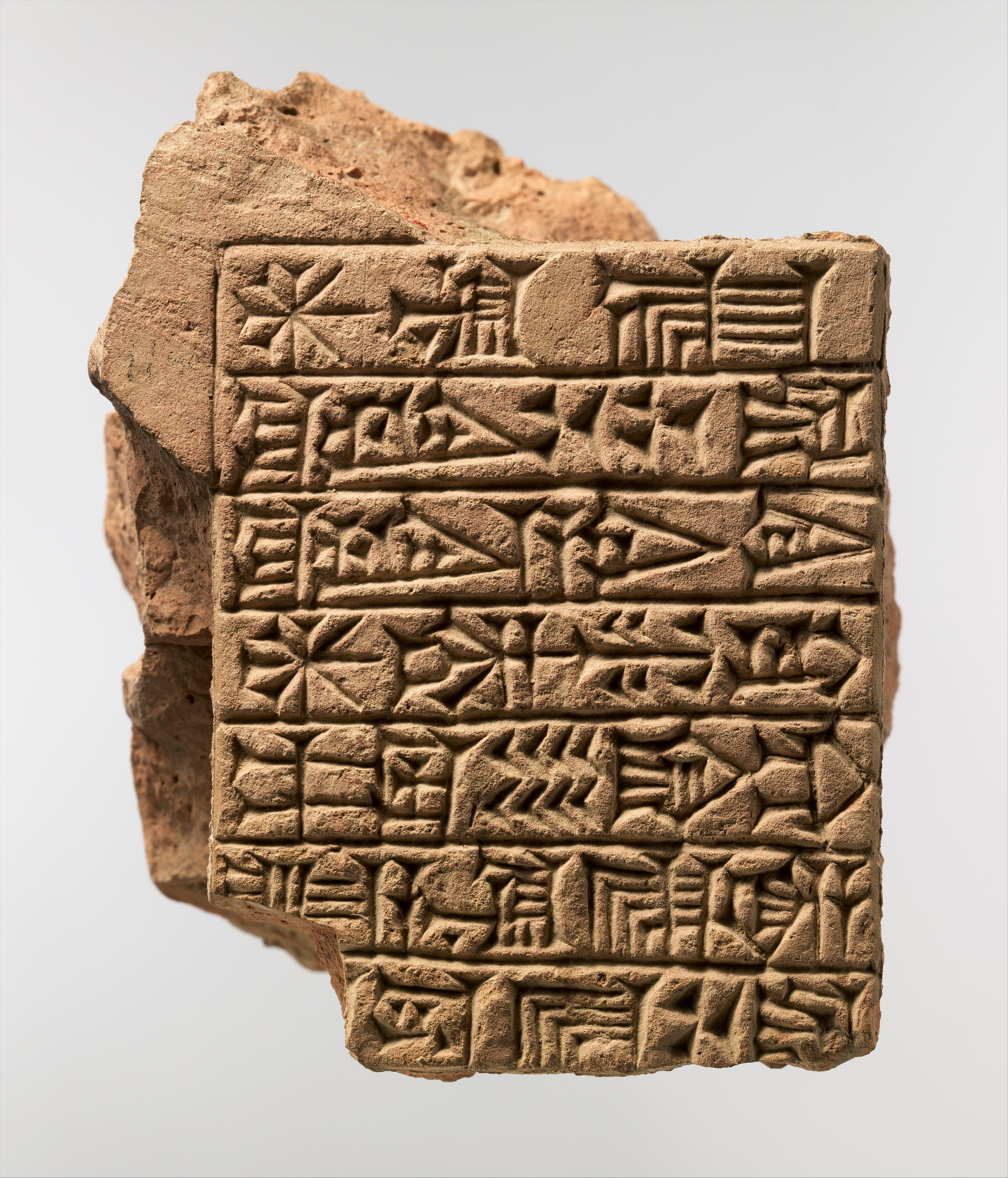 Kassite; Brick; Ceramics-Architectural-Inscribed